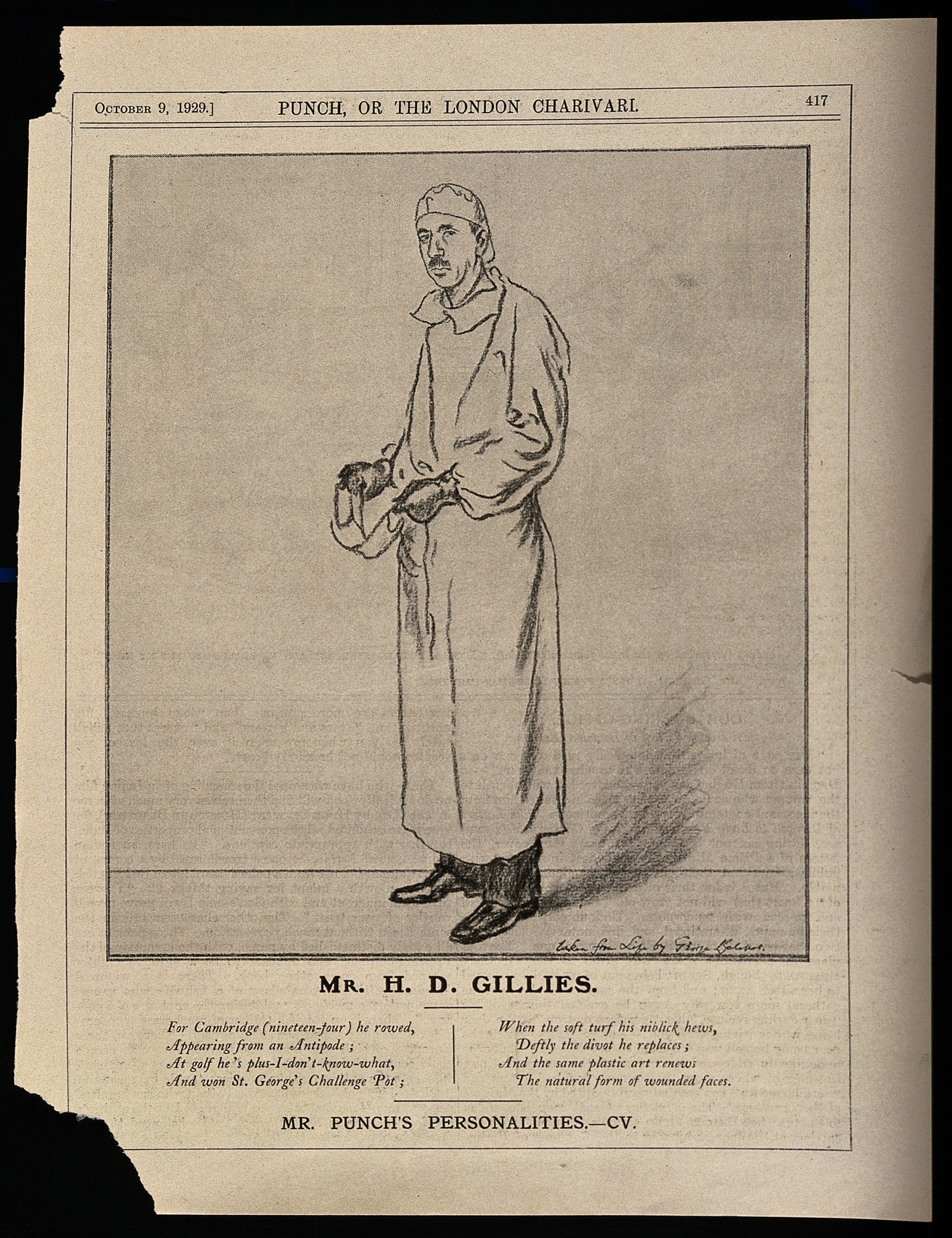 Sir Harold Delf Gillies, a famous plastic surgeon. Lettering reads: "For Cambridge (nineteen-four) he rowed, appearing from an antipode; at golf he's plus-I-don't-what, and won St. George's challenge pot; when the soft turf his niblick hews, deftly the divot he replaces; and the same plastic art renews, the natural form of wounded faces." Iconographic Collections Keywords: portrait prints; gillies, harold delf, sir, 188; plastic surgeons; George Belcher; Harold Delf Gillies